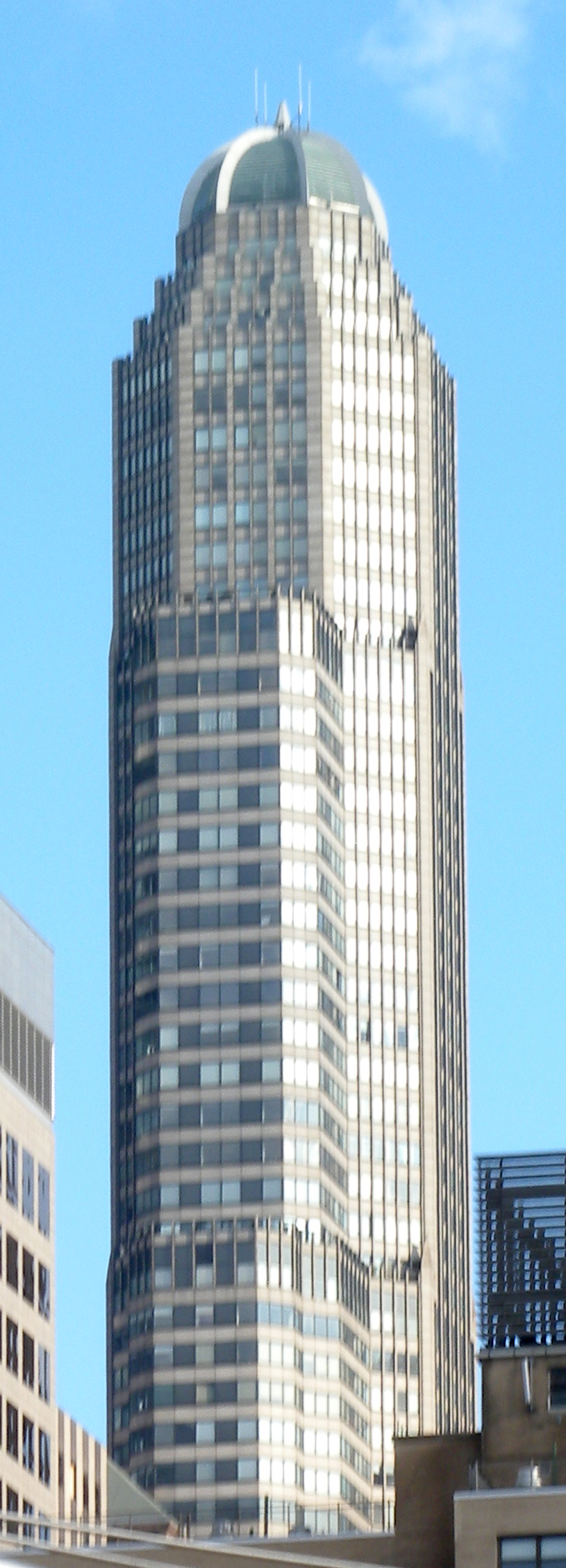 Looking east at CitySpire Center from 9th Avenue between 53d and 54th Streets on a sunny November afternoon. EXIF says September due to photographer's error.